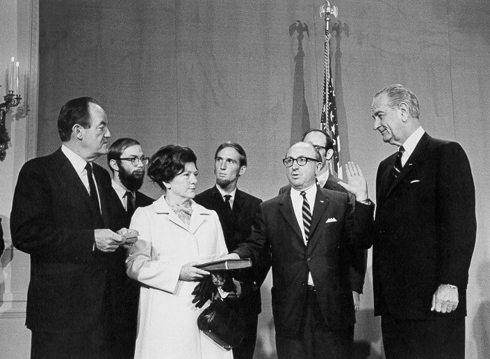 Wilbur Cohen being sworn in as Secretary of HEW. Looking on are President Johnson (r), Vice-President Hubert Humphrey (l) and Cohen's wife and three sons.